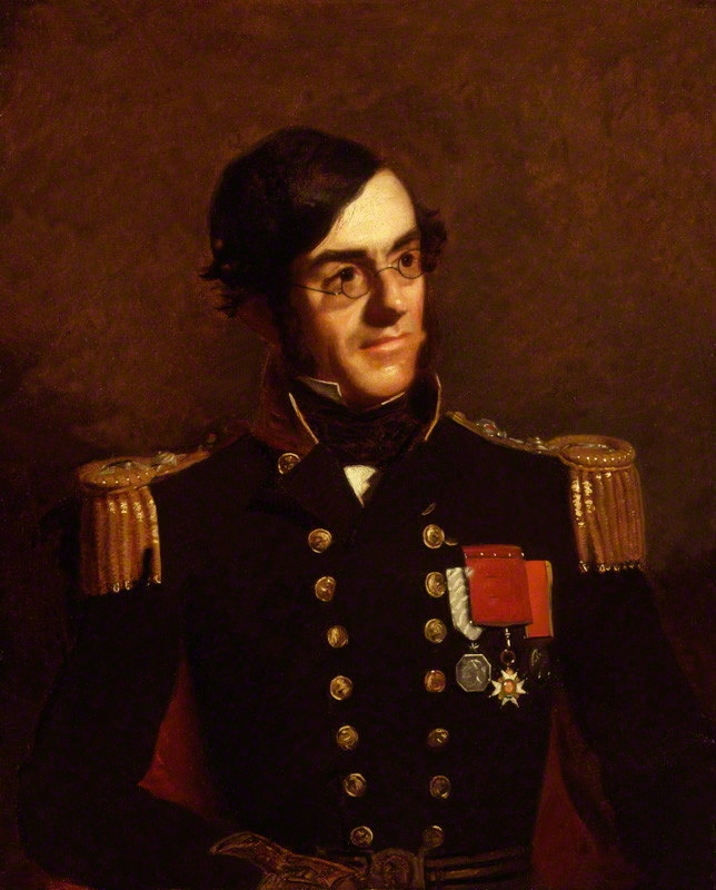 Sir Richard Collinson